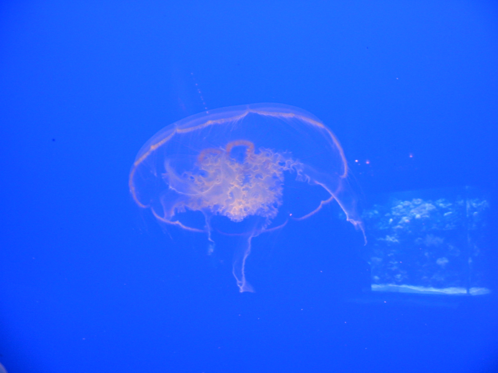 jellyfish: @ Ripley's Aquarium